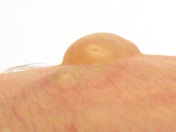 Blister from Burns (Side view). It was caused by hot cheese that leaked out of a deepfried Dutch specialty onto a hand and stayed there for about 10 seconds. The picture was taken about 12h after the incident.